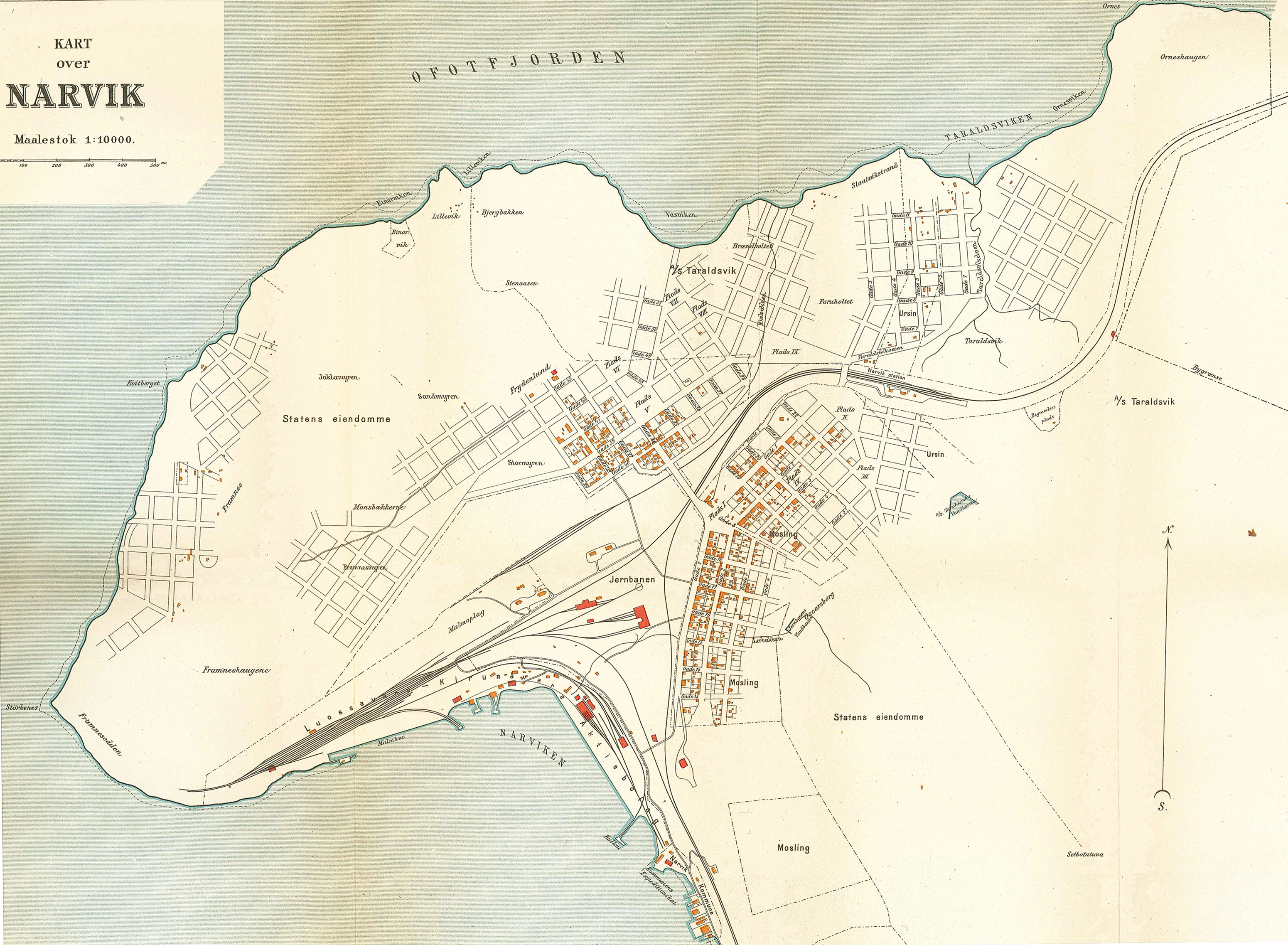 Map of Narvik, Norway, 1907